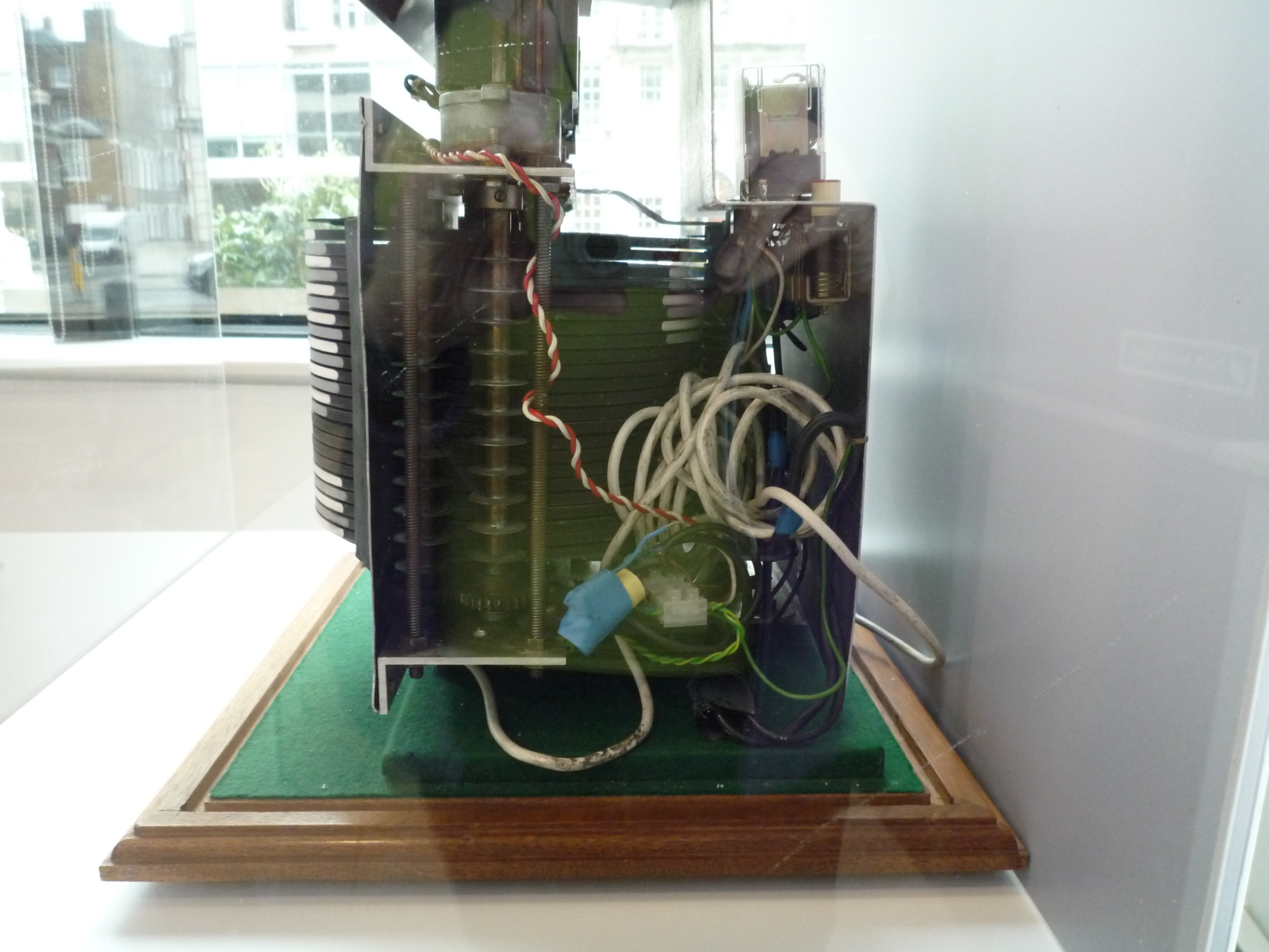 Photograph of BBC Two 'Striped' ident mechanism from side Other information Poor quality due to reflections, hence not uploaded to Commons at present.